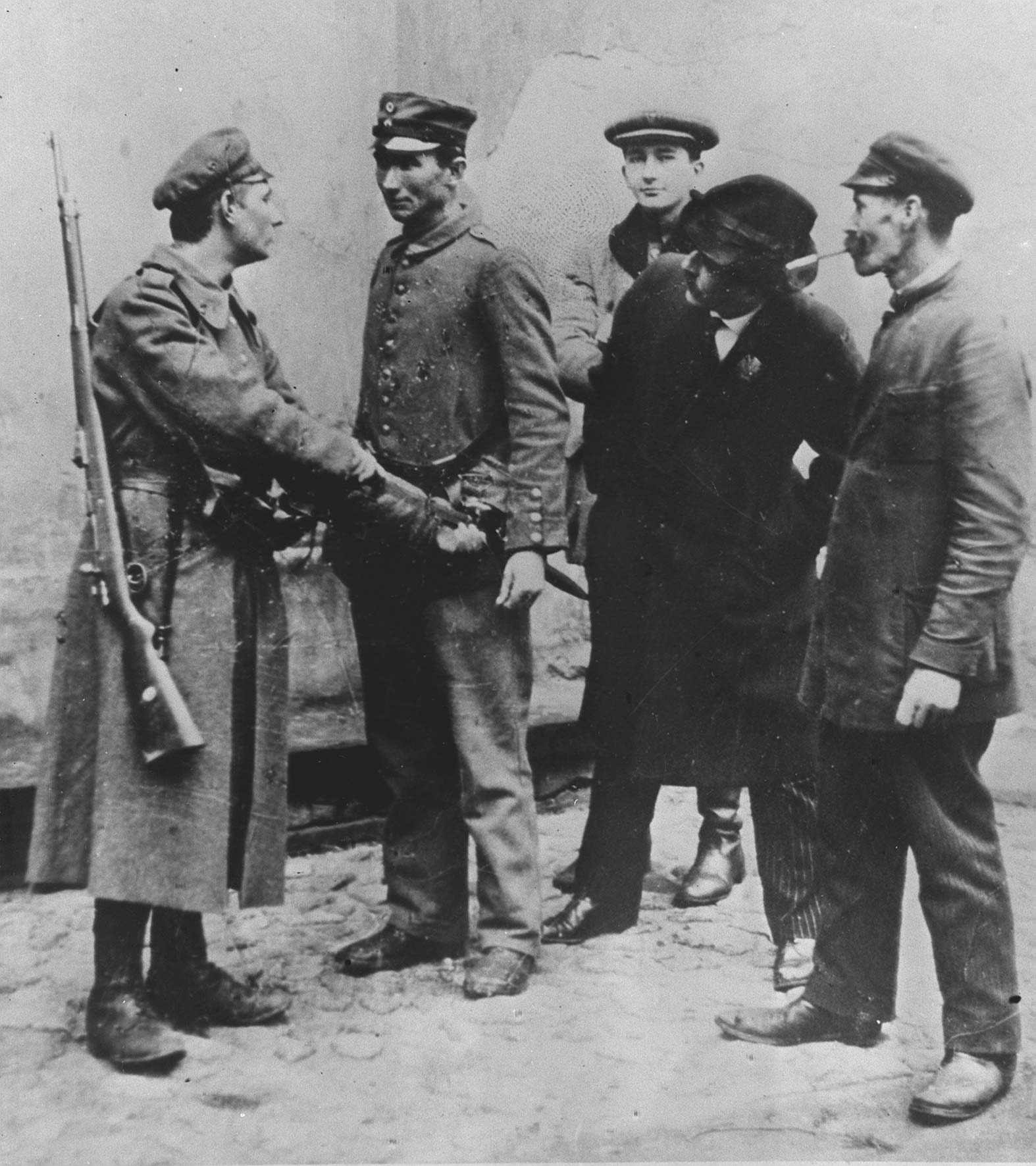 Disarmament of soldiers of German Army in Warsaw by Polish soldiers.